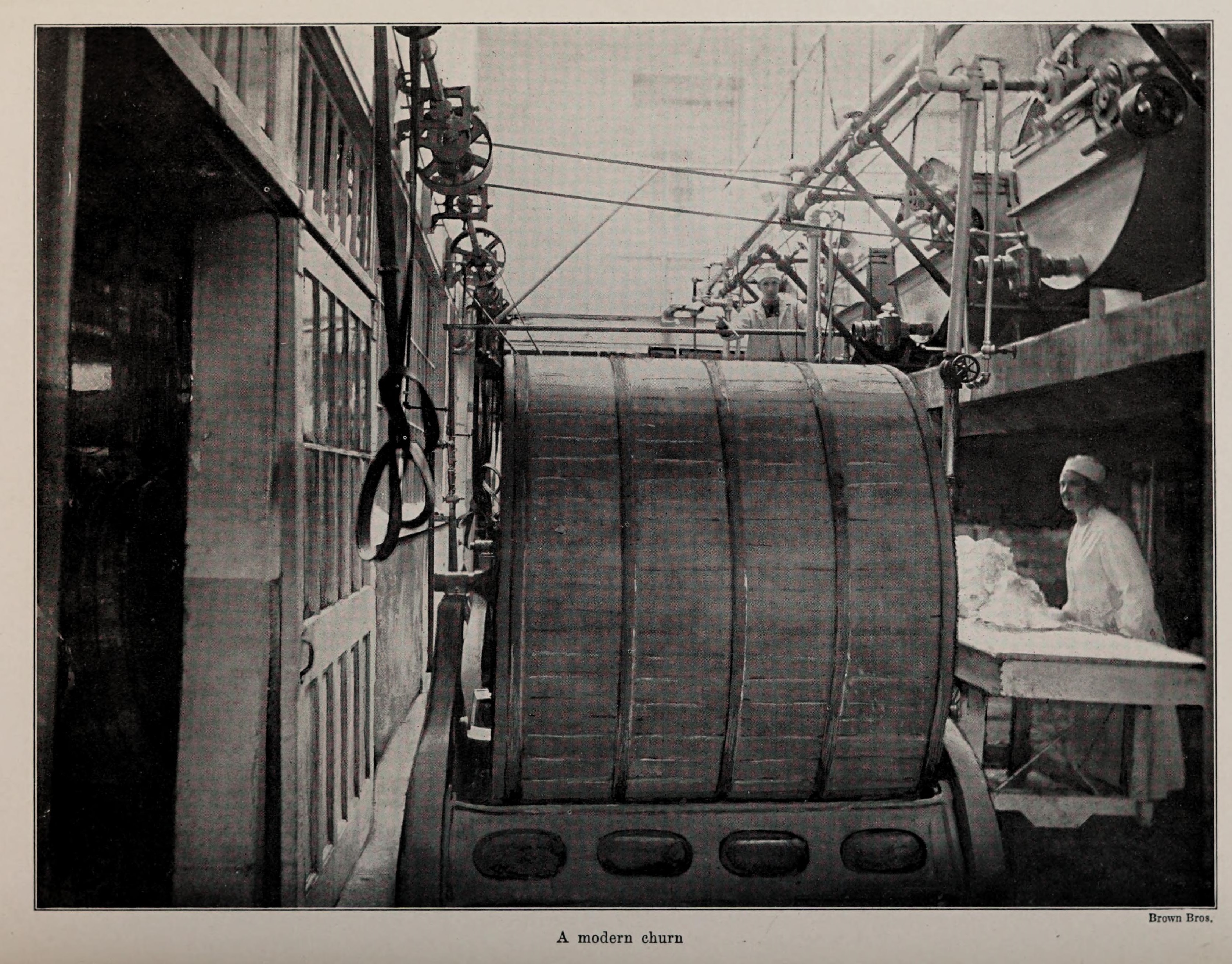 A modern butter churn, photo from The Encyclopedia of Food by Artemas Ward (photo credit: Brown Bros.)